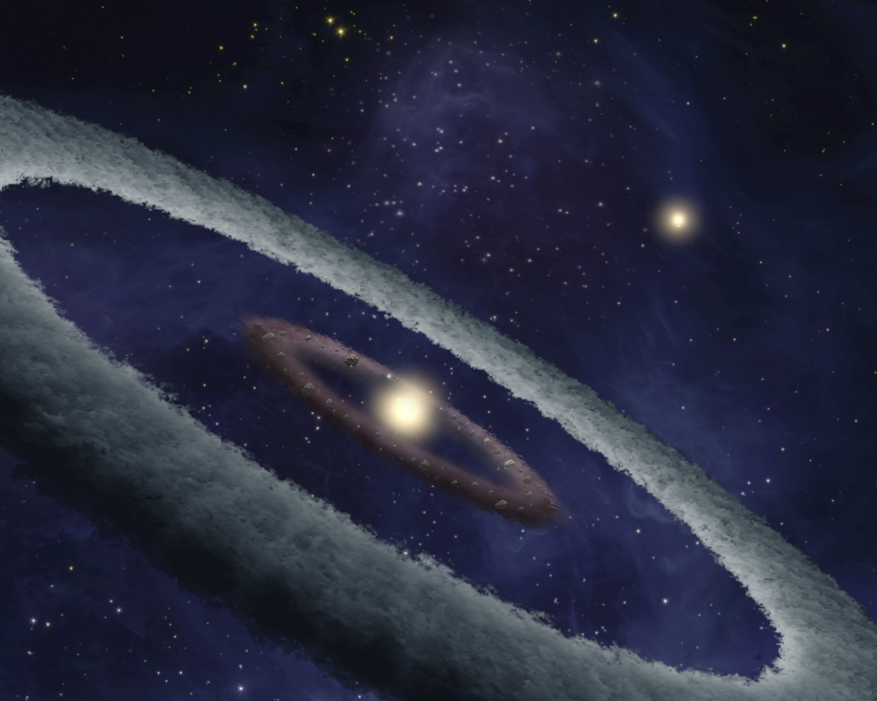 This artist's conception shows a binary-star, or two-star, system, called HD 113766, where astronomers suspect a rocky Earth-like planet is forming around one of the stars. At approximately 10 to 16 million years old, astronomers suspect this star is at just the right age for forming rocky planets. The system is located approximately 424 light-years away from Earth. The two yellow spots in the image represent the system's two stars. The brown ring of material circling closest to the central star depicts a huge belt of dusty material, more than 100 times as much as in our asteroid belt, or enough to build a Mars-size planet or larger. The rocky material in the belt represents the early stages of planet formation, when dust grains clump together to form rocks, and rocks collide to form even more massive rocky bodies called planetesimals. The belt is located in the middle of the system's terrestrial habitable zone, or the region around a star where liquid water could exist on any rocky planets that might form. Earth is located in the middle of our sun's terrestrial habitable zone.